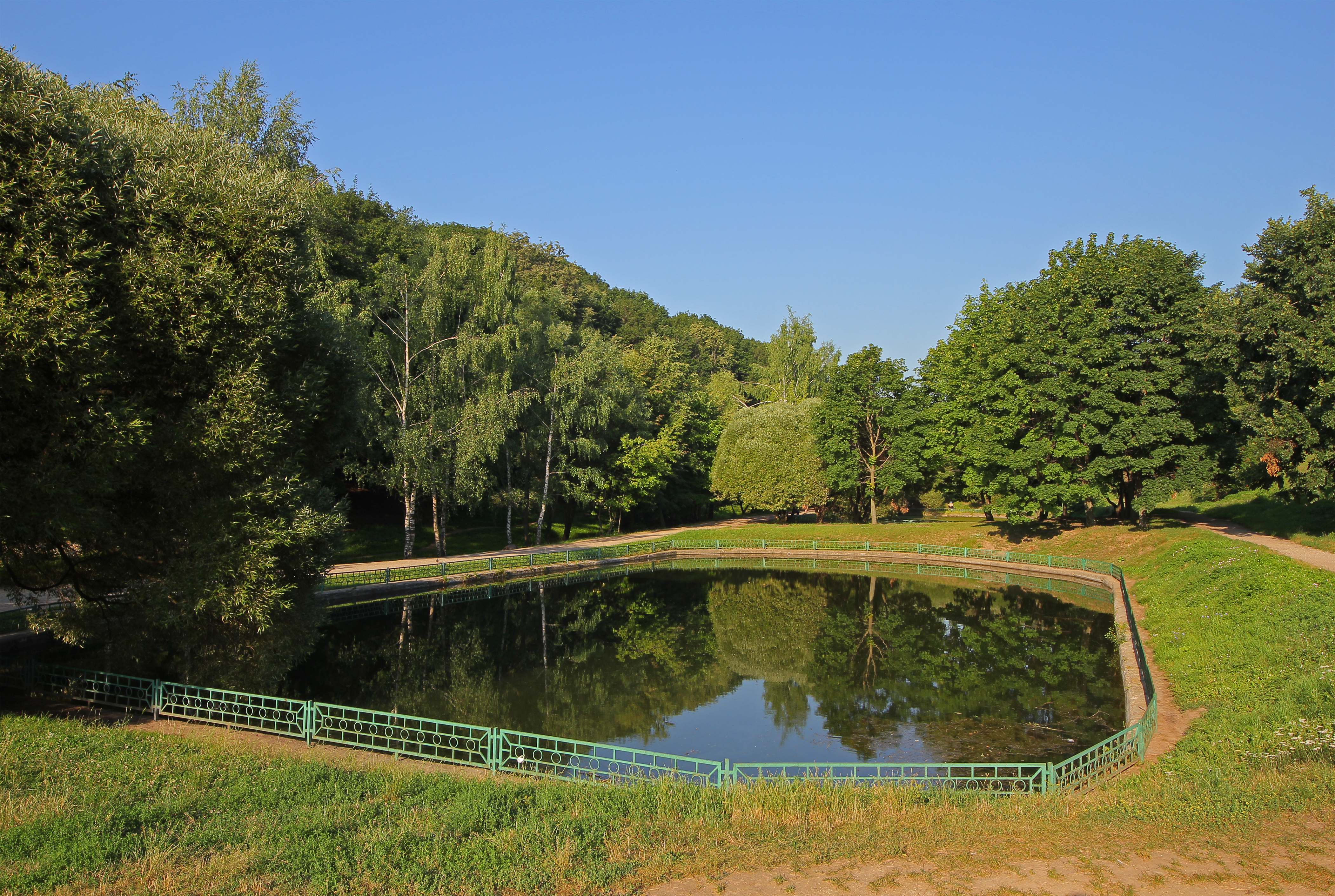 Kolomenskoe Museum Reserve in Moscow. The Golosov Gully.